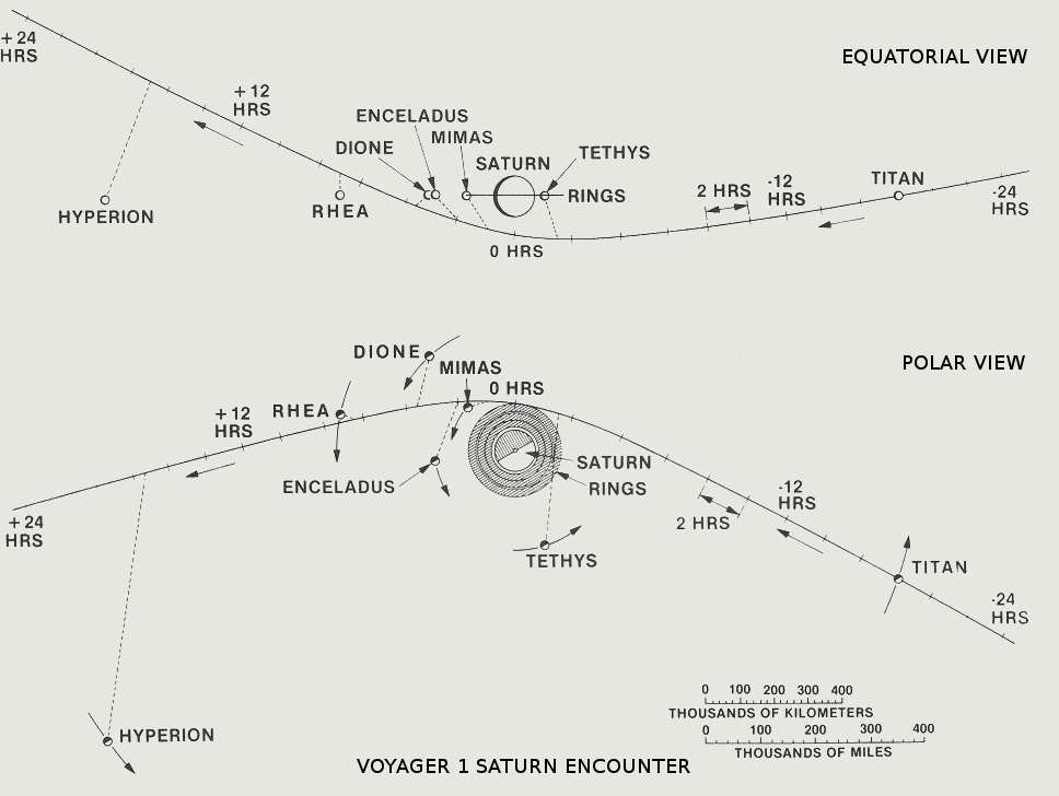 Voyager 1 trajectory in Saturn System, November 11 - 13, 1980.